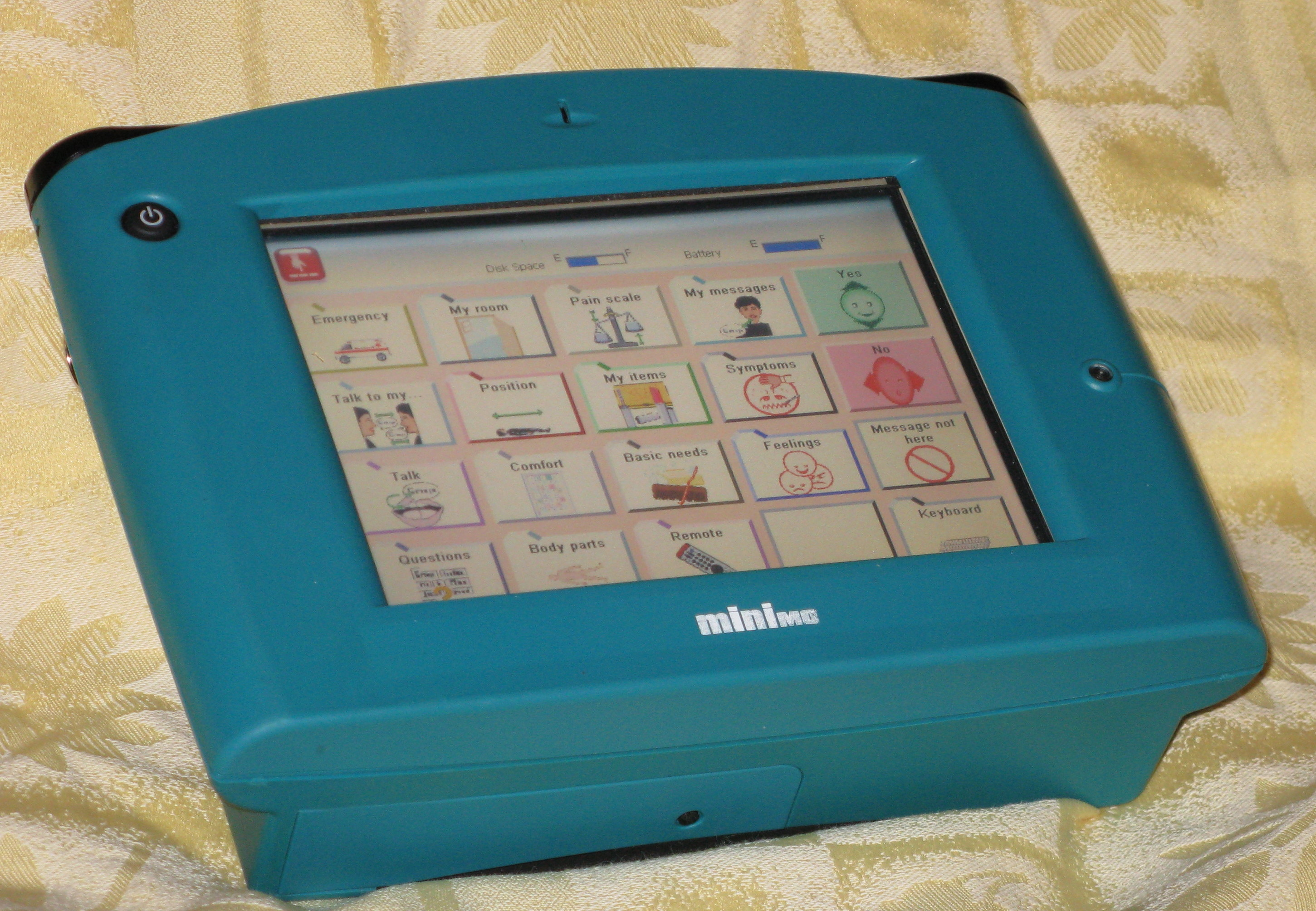 Minimo speech generating device